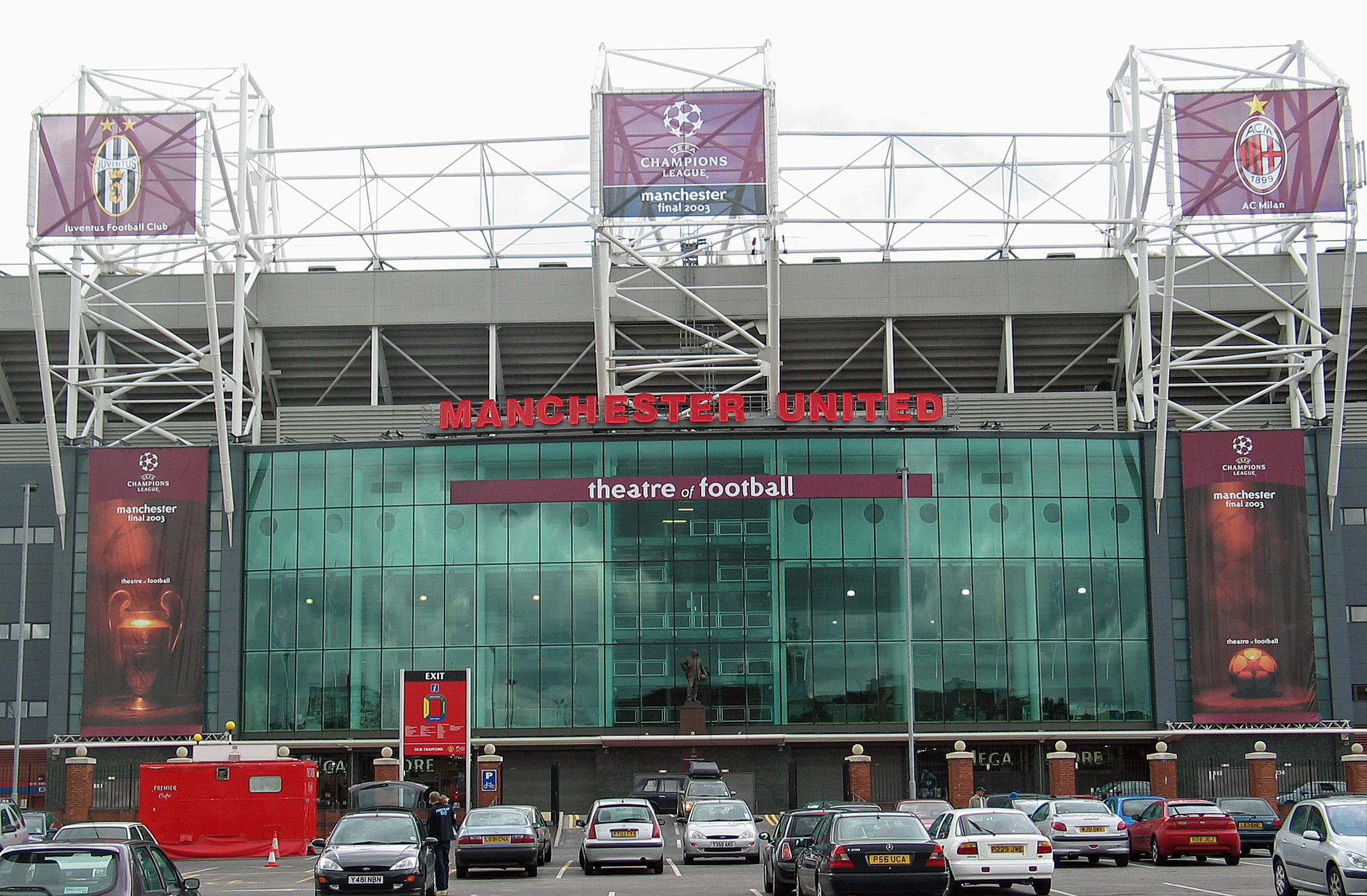 Old Trafford in Manchester was the venue for the 2003 UEFA Champions League Final between Juventus and AC Milan on 28 May 2003